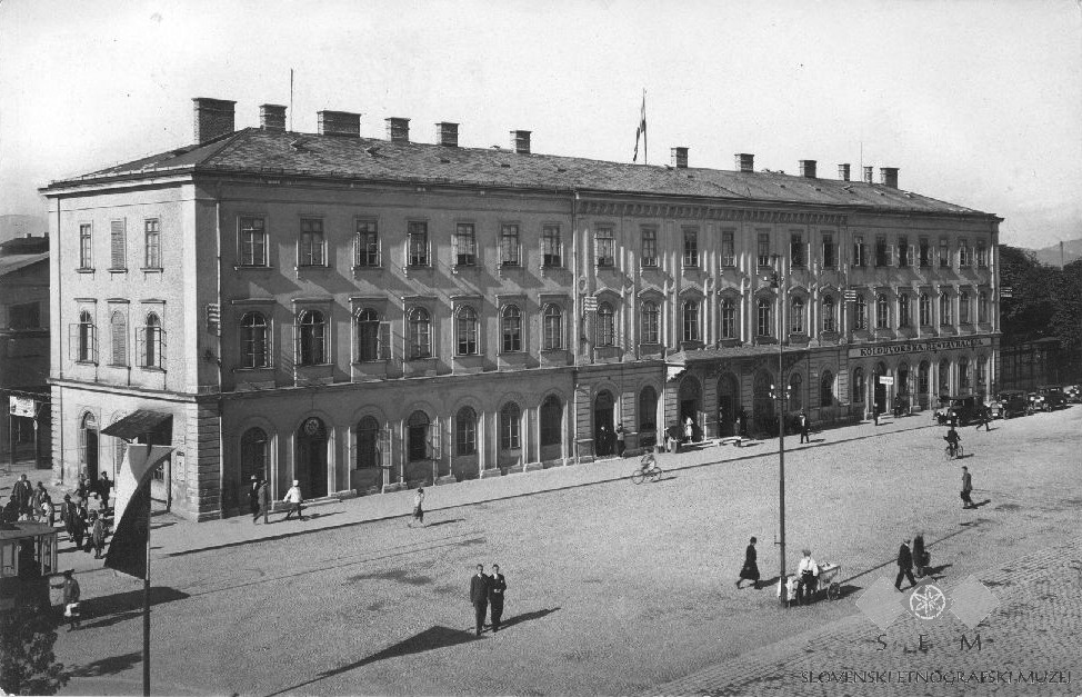 Postcard of Ljubljana train station